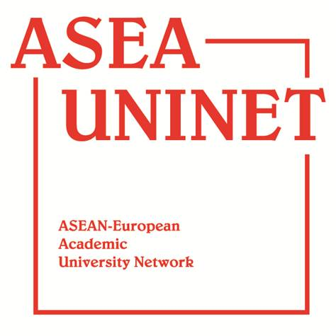 ASEA-UNINET LOGO